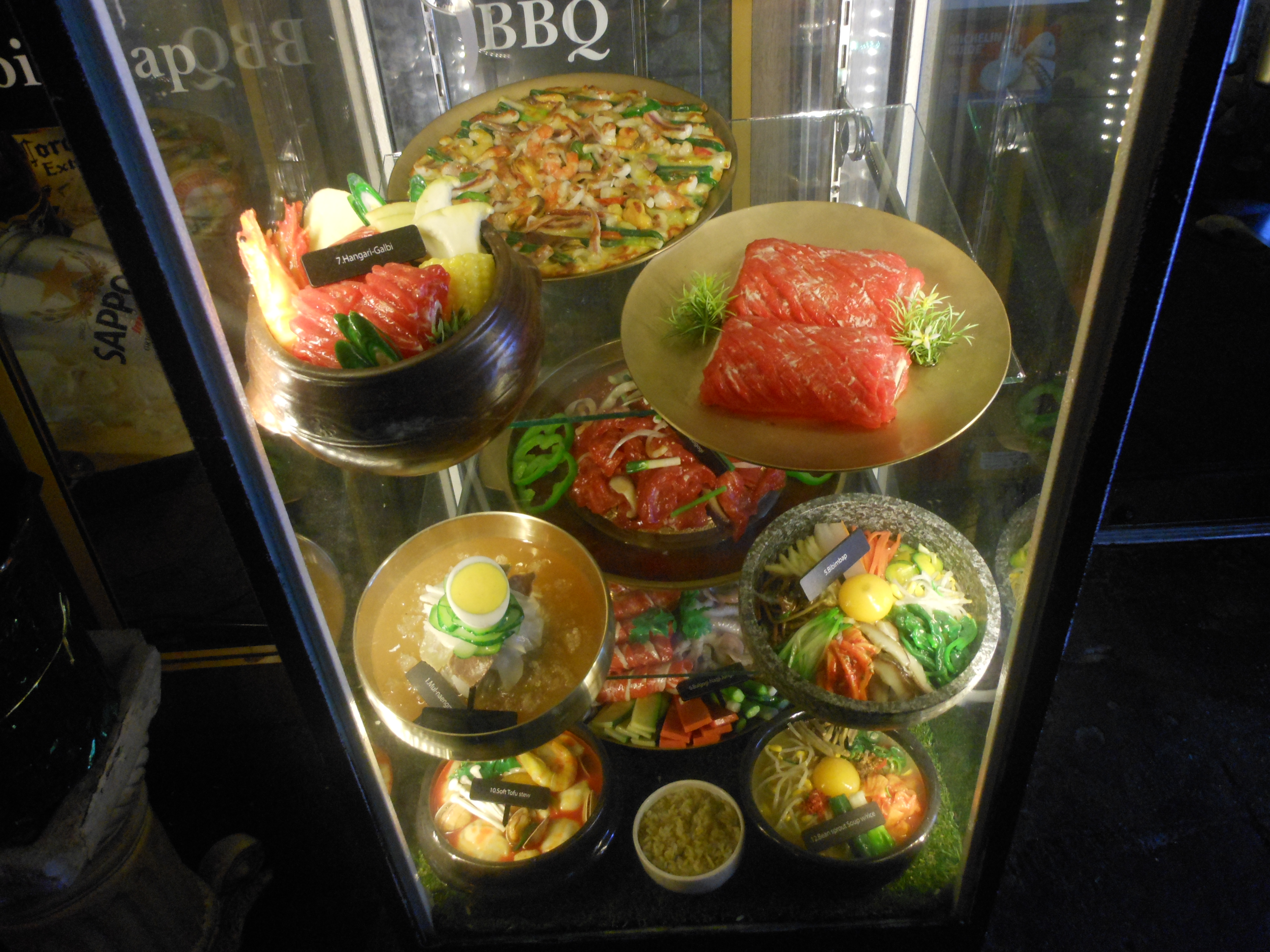 Korean dishes on display in Koreatown of Manhattan, New York City